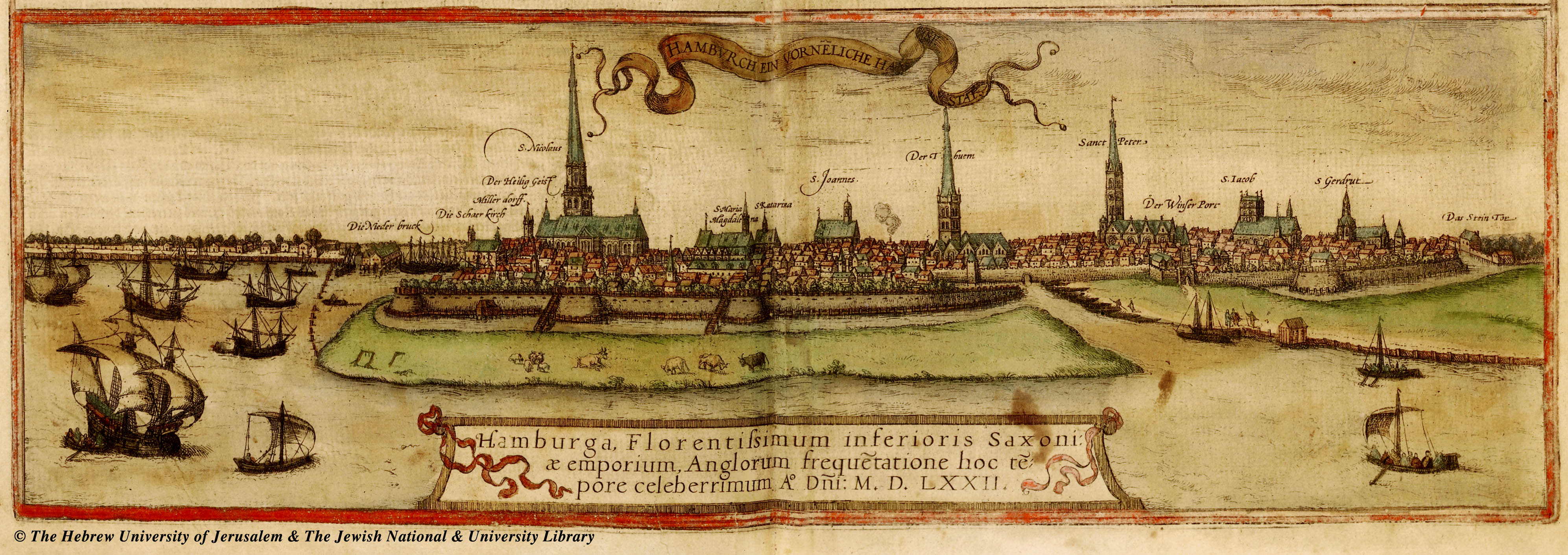 Inscription: HAMBVRCH EIN VORNẼLICHE HAN[SE] STAT // Hamburga, Florentissimum inferioris Saxoni⸗æ emporium, Anglorum frequẽtatione hoc tẽ⸗pore celeberrimum A° Dñi: M.D.LXXII. [1572] cf. Mariano Junge